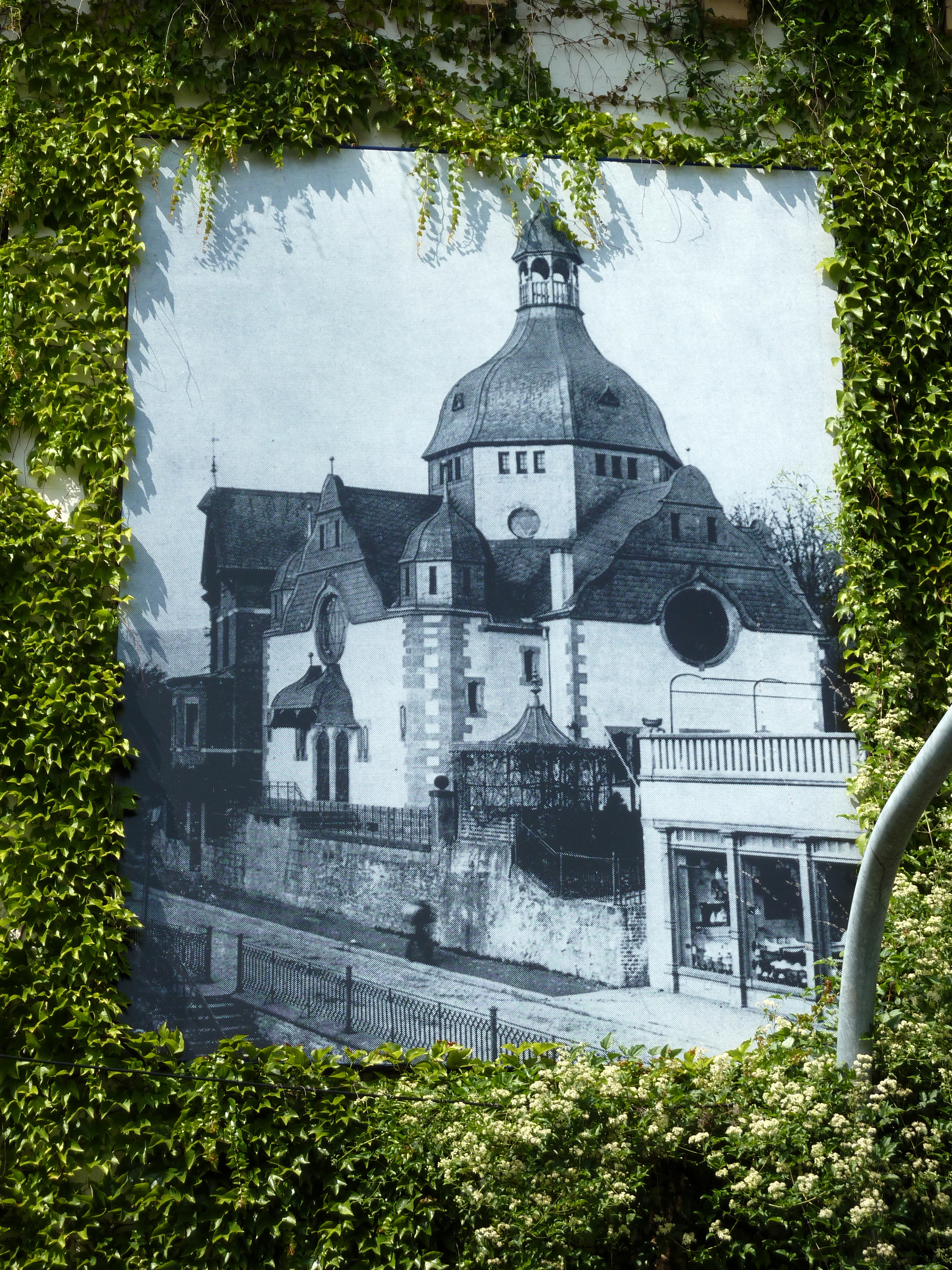 City of Siegen (Westphalia, Germany): Poster with a photo of the local synagogue, which was destroyed by the SS during the anti-jewish Nazi pogrom “Kristallnacht” on November 10, 1938.